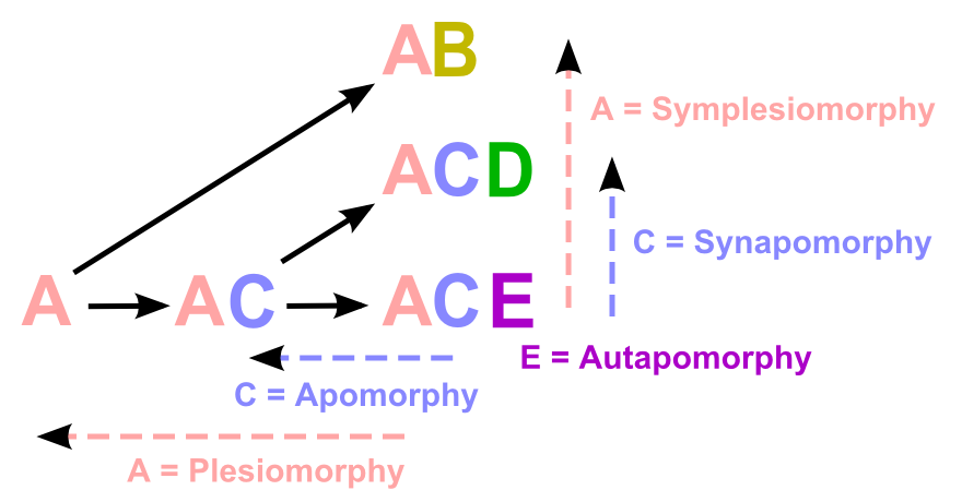 Graph explaining apomorphy, autapomorphy, synapomorphy, plesiomorphy and symplesiomorphy.